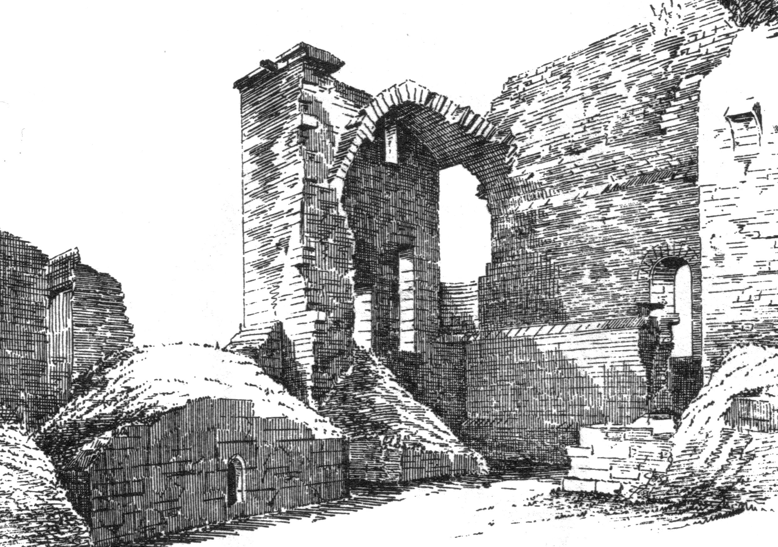 Glengarnock Castle in 1887 - 92. Kilbirnie, North Ayrshire, Scotland.